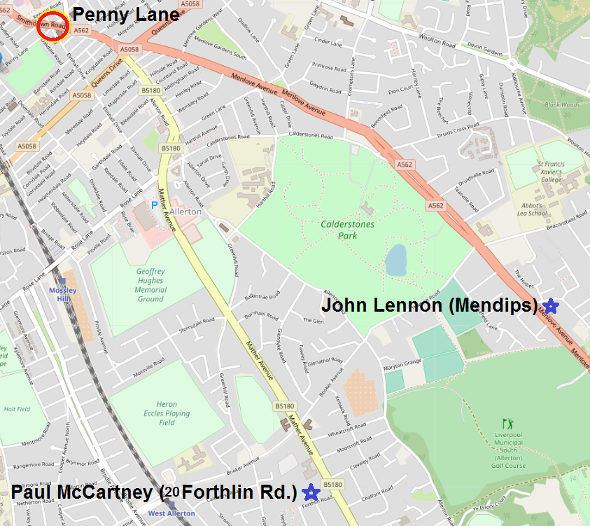 Map showing Penny Lane and Paul McCartney's and John Lennon's homes.